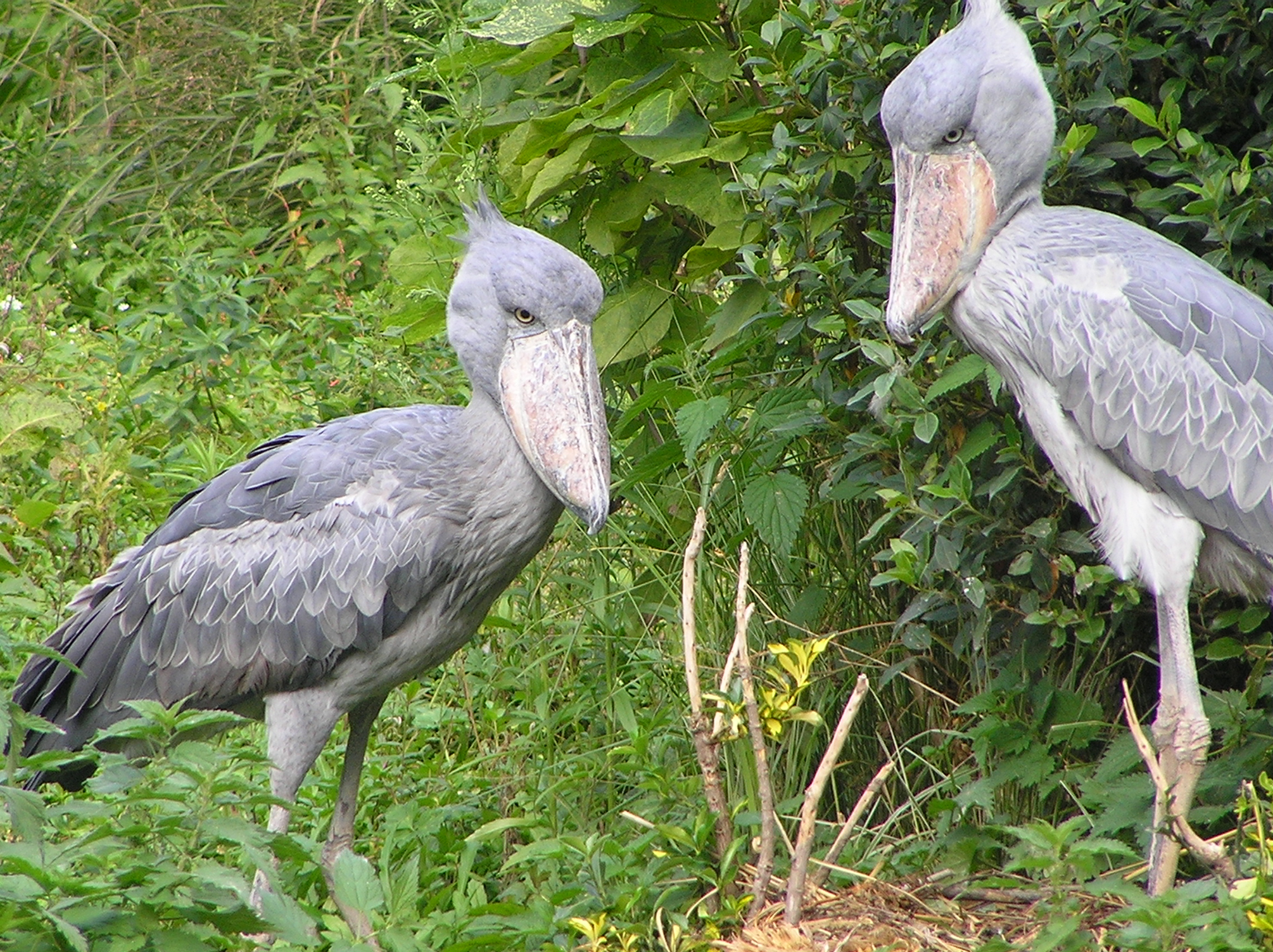 A couple of shoebills (Balaeniceps rex)